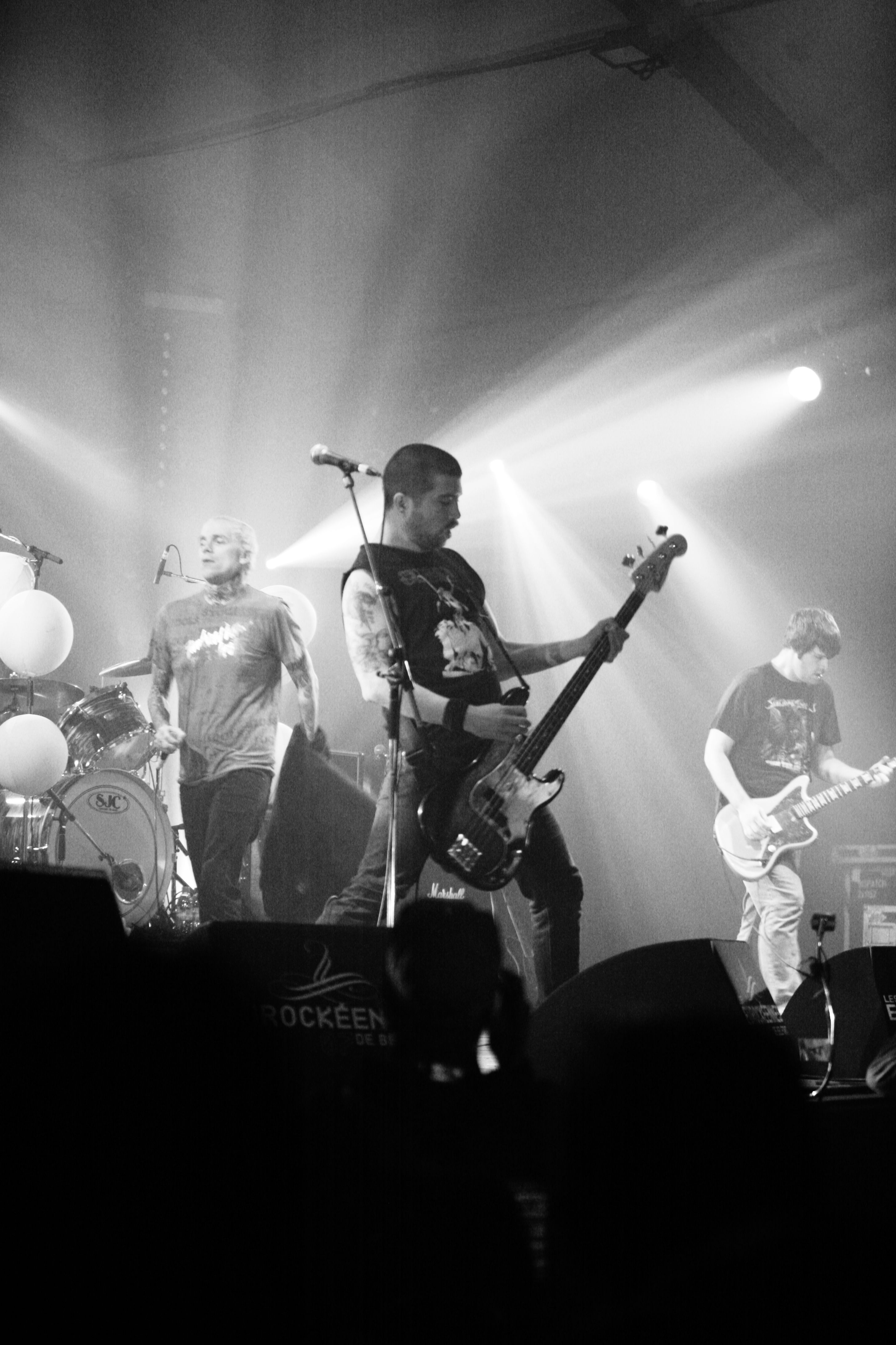 Converge at the Eurockéennes of 2007